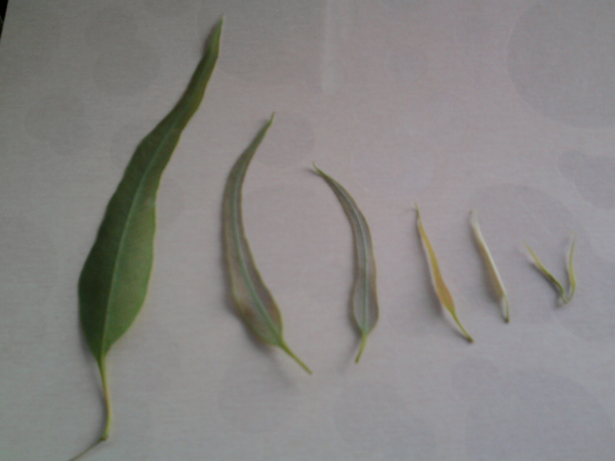 Eucalyptus Leafs